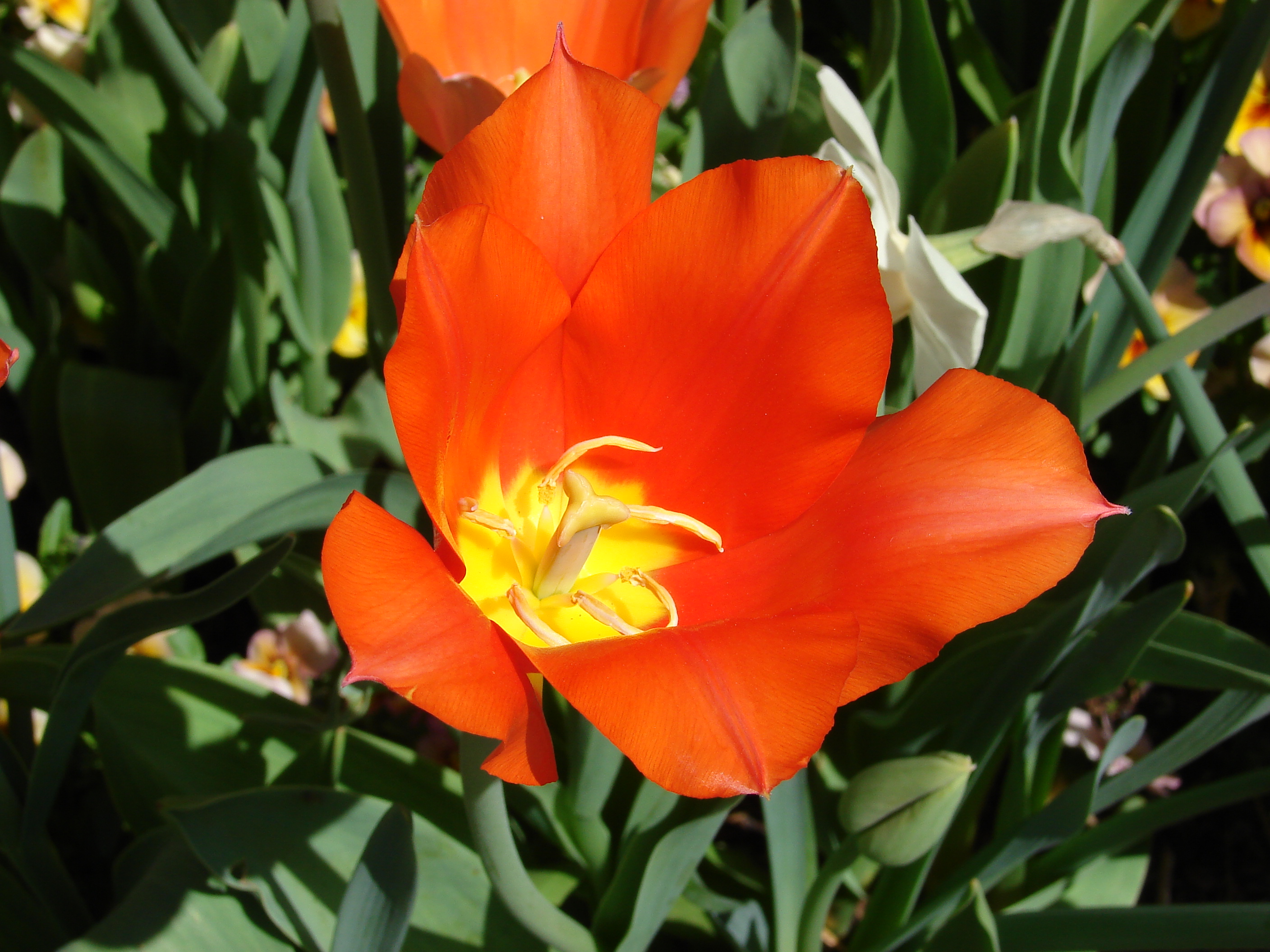 Orange tulip (Tulipa vvedenskyi) at the Dallas Arboretum and Botanical Garden (Dallas, Texas).